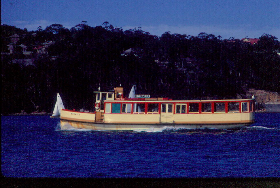 Sydney Ferry REGALIA ex RODNEY approaching Mosman Bay December 1971 in her Rosman Ferry Colours Graeme Andrews, Ferry REGALIA ( 1938- c.2000) ex RODNEY, ex REGIS. (01/12/1971 - 31/12/1971), [A-00081655]. City of Sydney Archives, accessed 14 May 2020